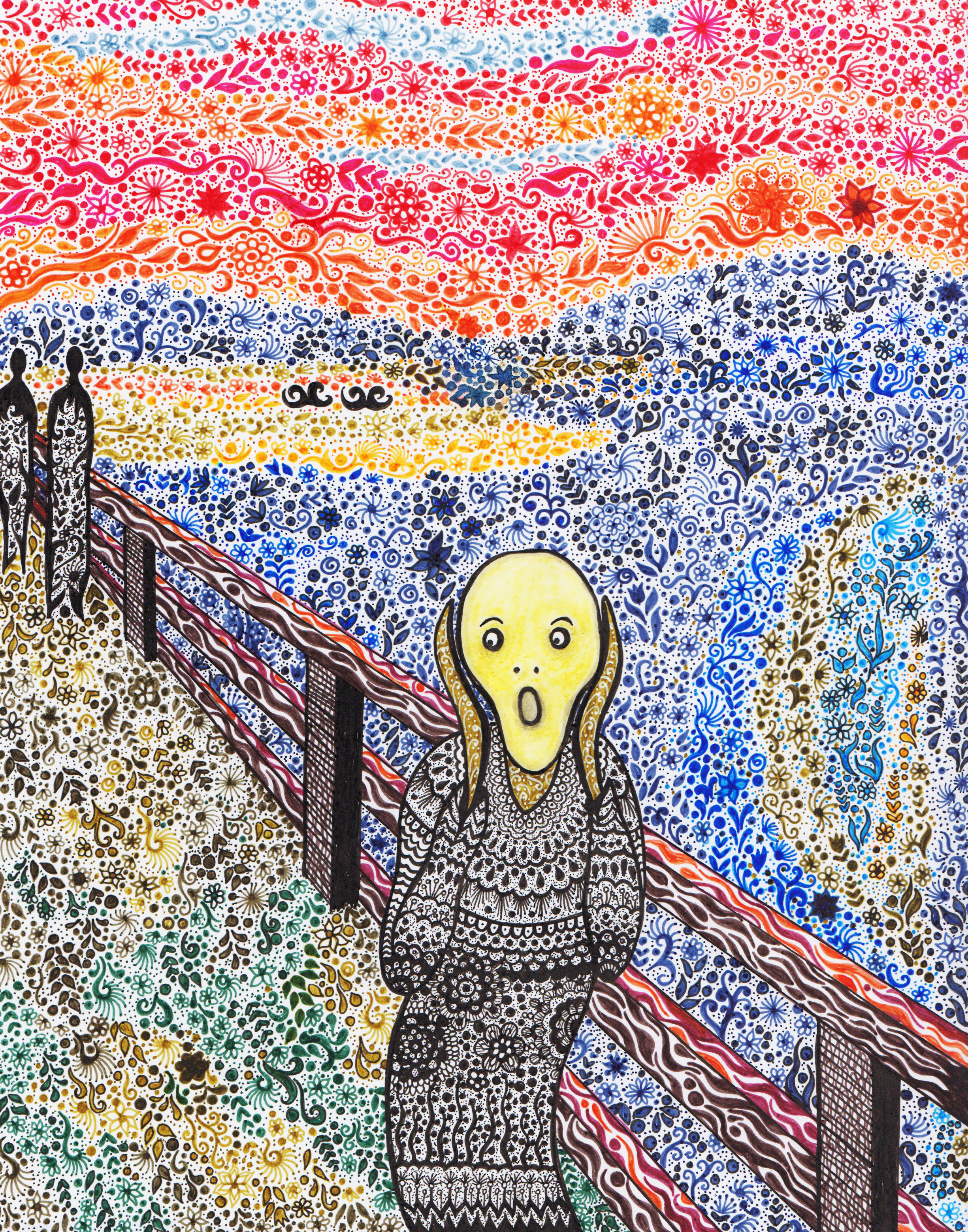 Paraphrase of "The Scream" by Edvard Munch.